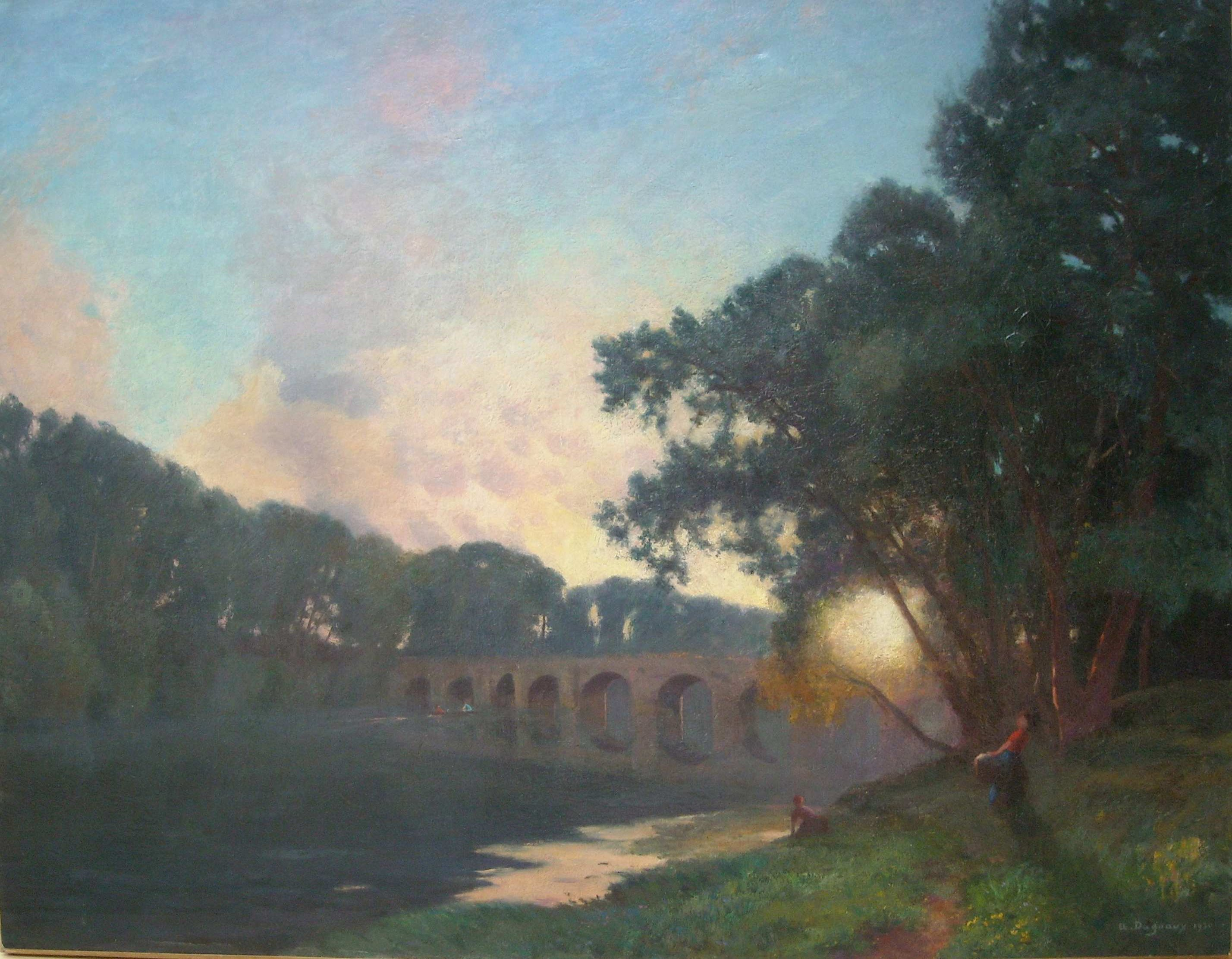 Lavandières au pont de Mantes by Albert Dagnaux, oil on canvas, 89×117 cm, city of Limay.